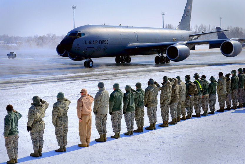 376th Expeditionary Operations Group KC-135 taxis while members of the 376th Air Expeditionary Wing salute on Feb. 24 at Transit Center at Manas, Kyrgyzstan. The KC-135, deployed from MacDill Air Force Base, Fla., flew for six hours, refueling A-10s and F-16s over Afghanistan. The KC-135 departed for MacDill AFB after after the final refueling mission over Afghanistan from the TCM. (Staff Sgt. Travis Edwards/Air Force)